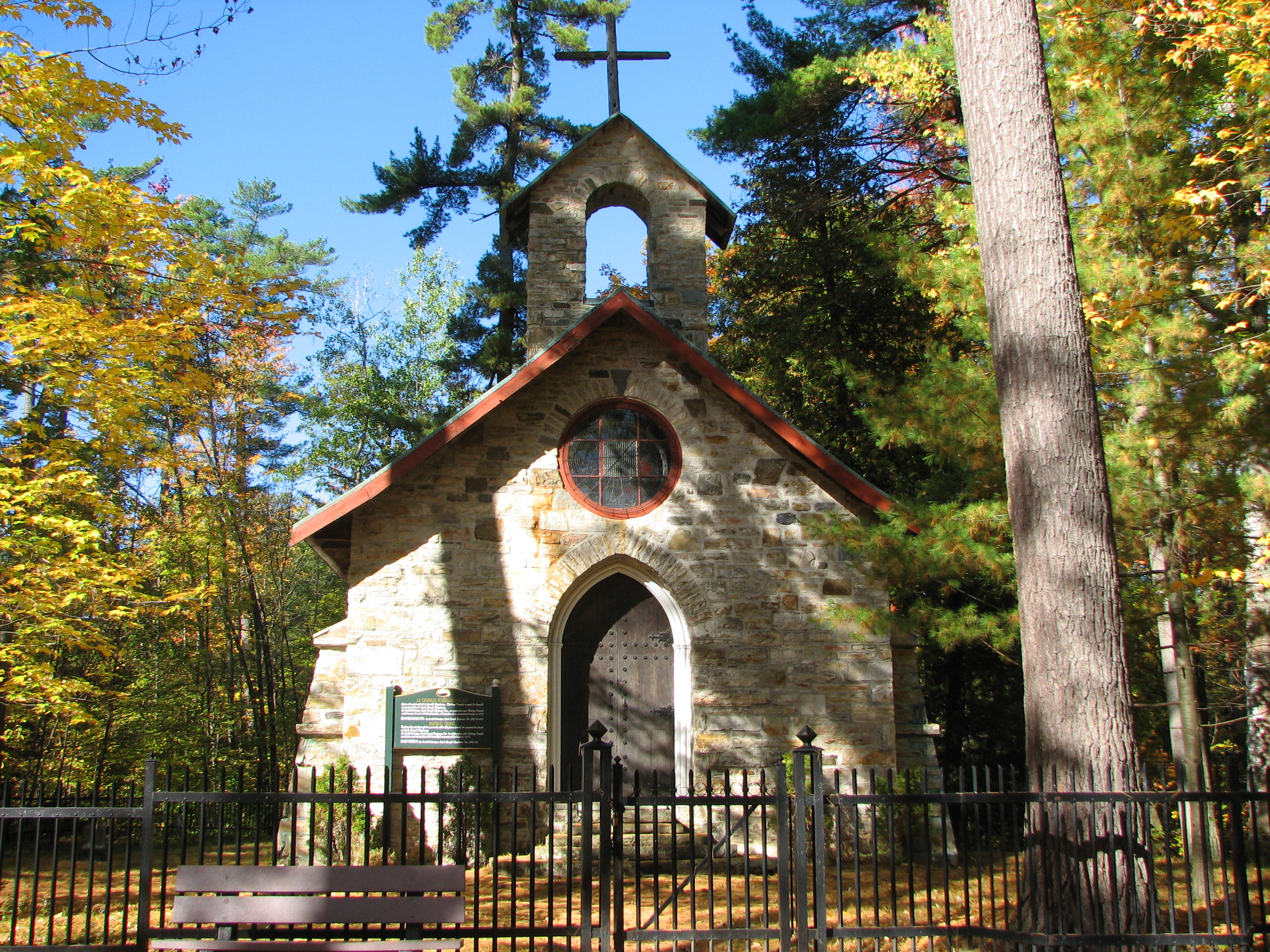 Papineau Chapel of grounds of Le Chateau Montebello, Montebello, Quebec, Canada